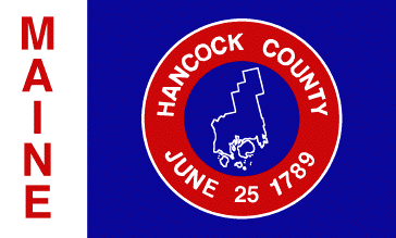 Flag of Hancock County, Maine, USA